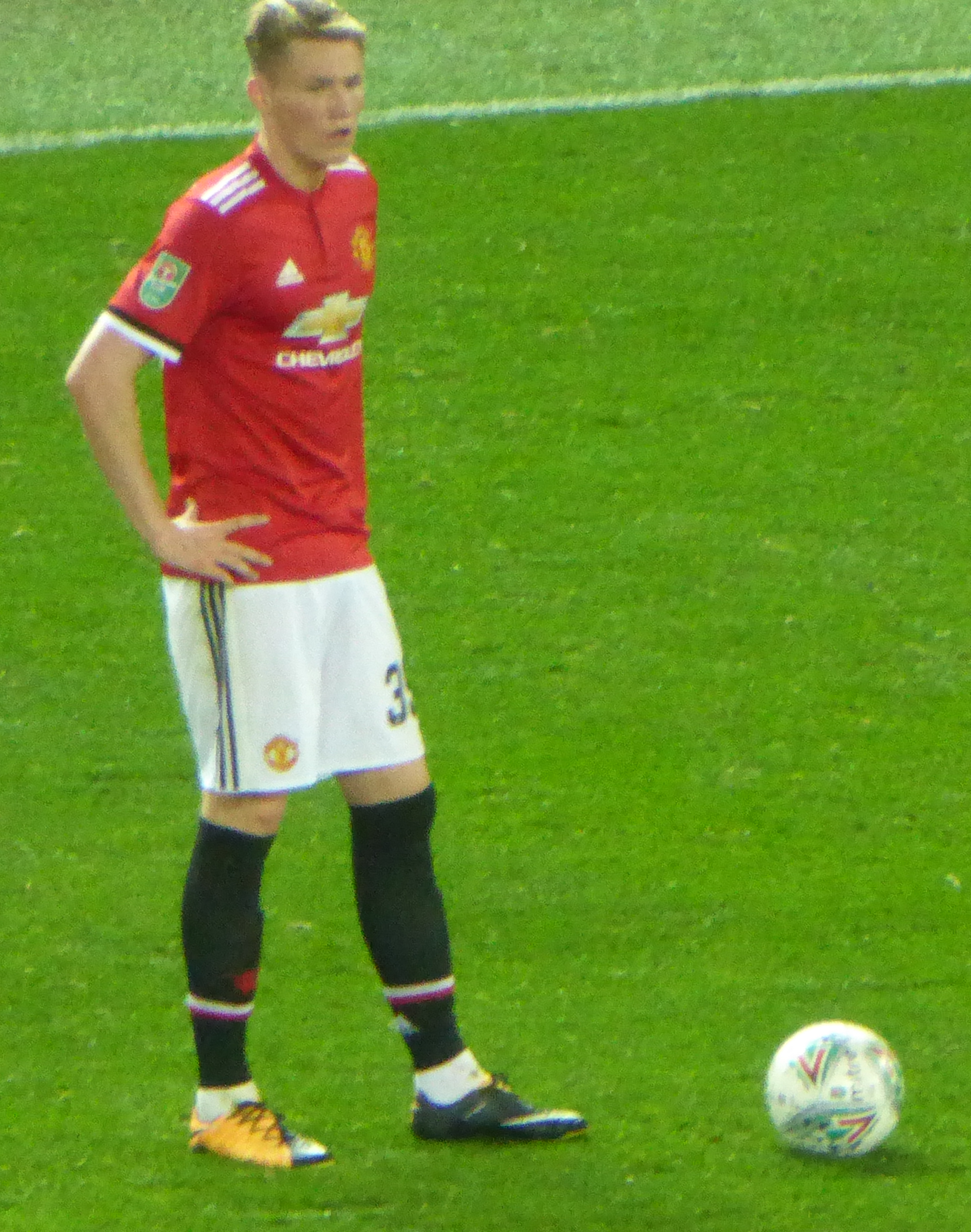 Manchester United v Burton Albion (4-1), Carabao Cup, Old Trafford, Manchester, Greater Manchester, England, 20 September 2017